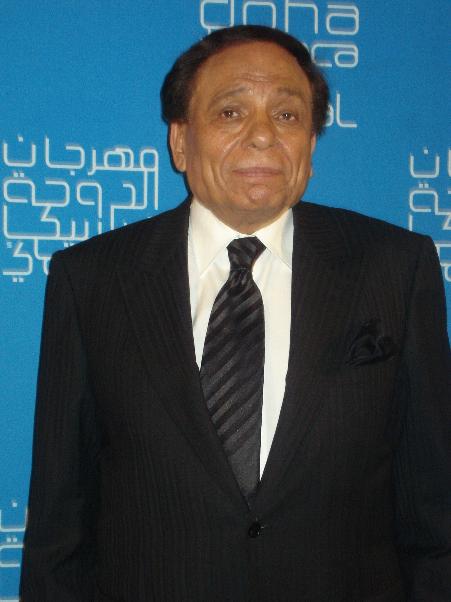 Adel Imam in Qatar 2009.